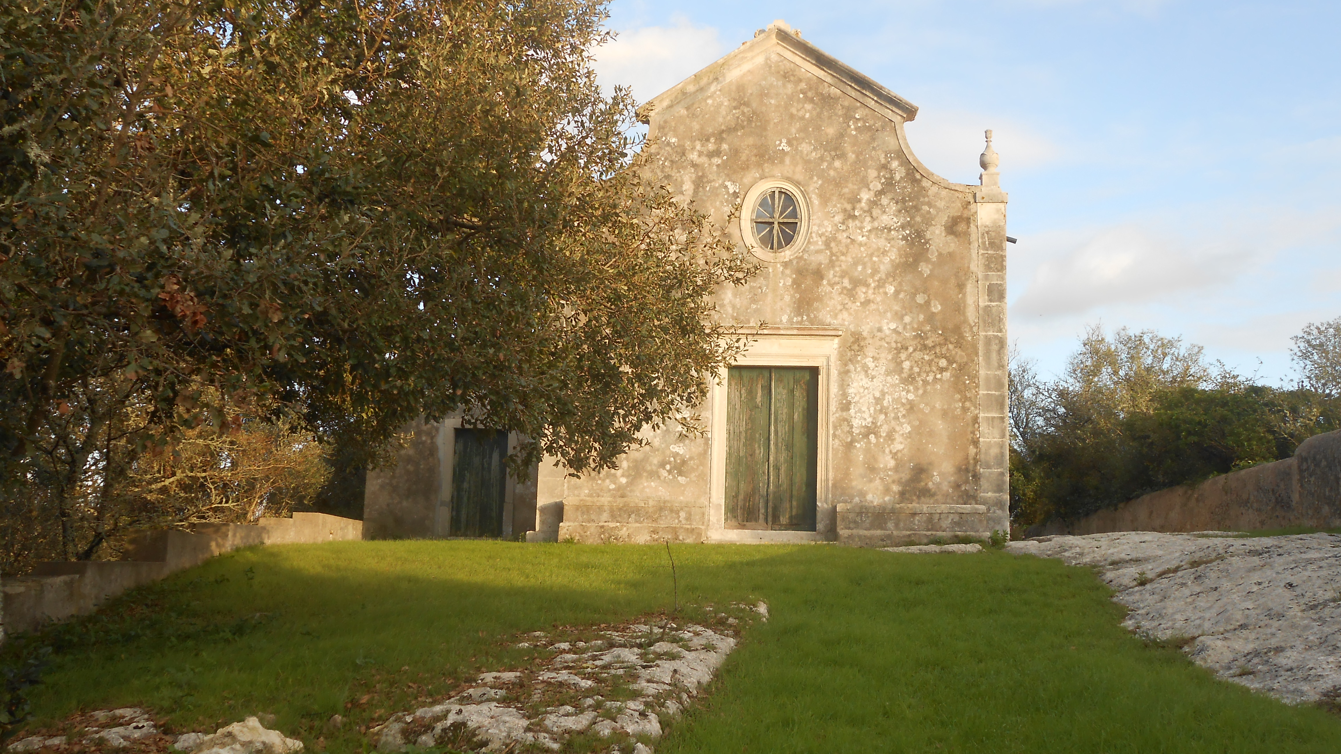 Partial view of the chapel of Santa Olaia at the archaeological site of the same name, in the municipality of Figueira da Foz, near the A14 highway (exit Montemor-o-Velho Oeste, dir. Ereira/Verride)